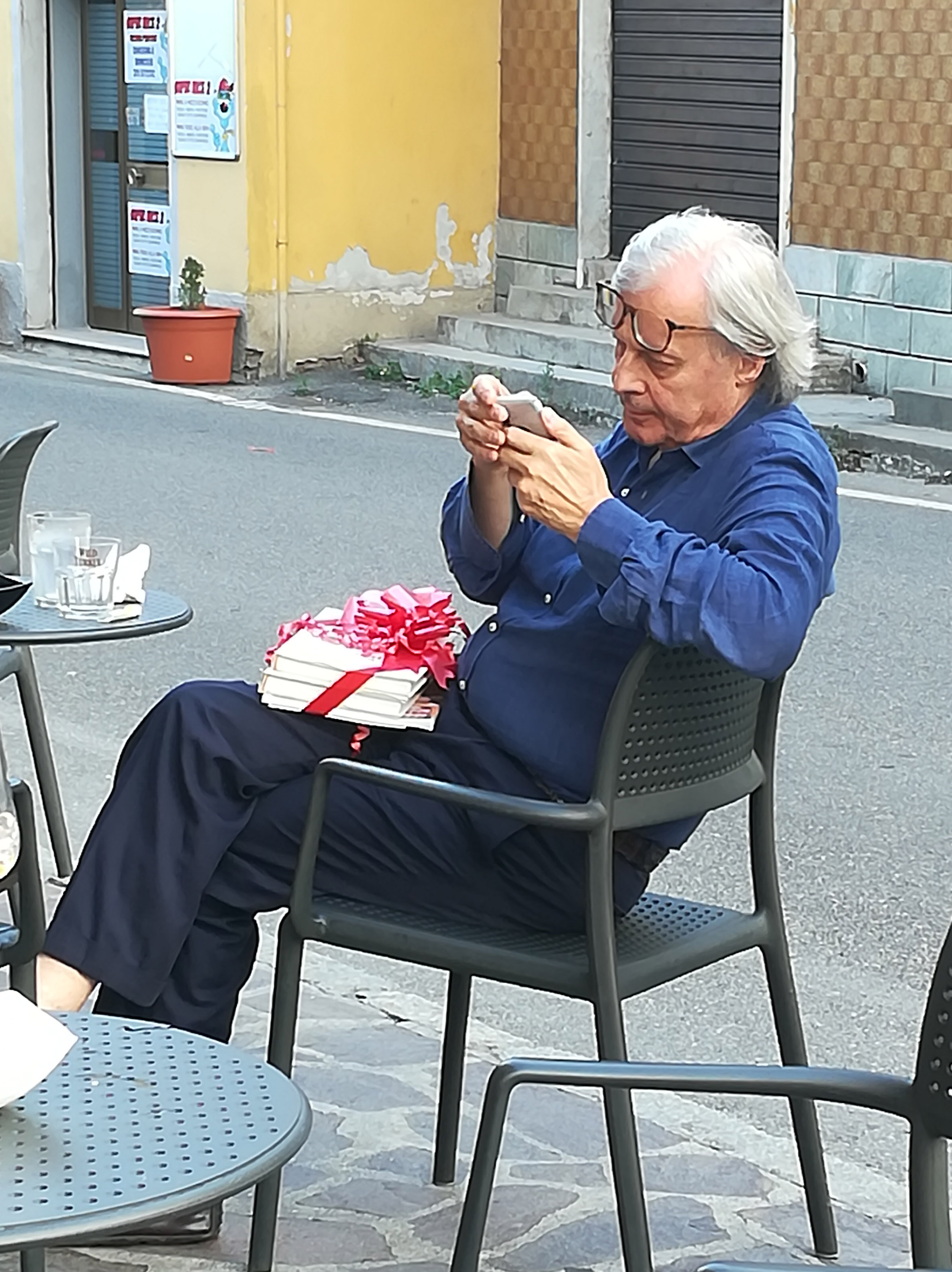 Vittorio Sgarbi in Casalpusterlengo just before the lection "I tesori di Lodi, Codogno e Casalpusterlengo"